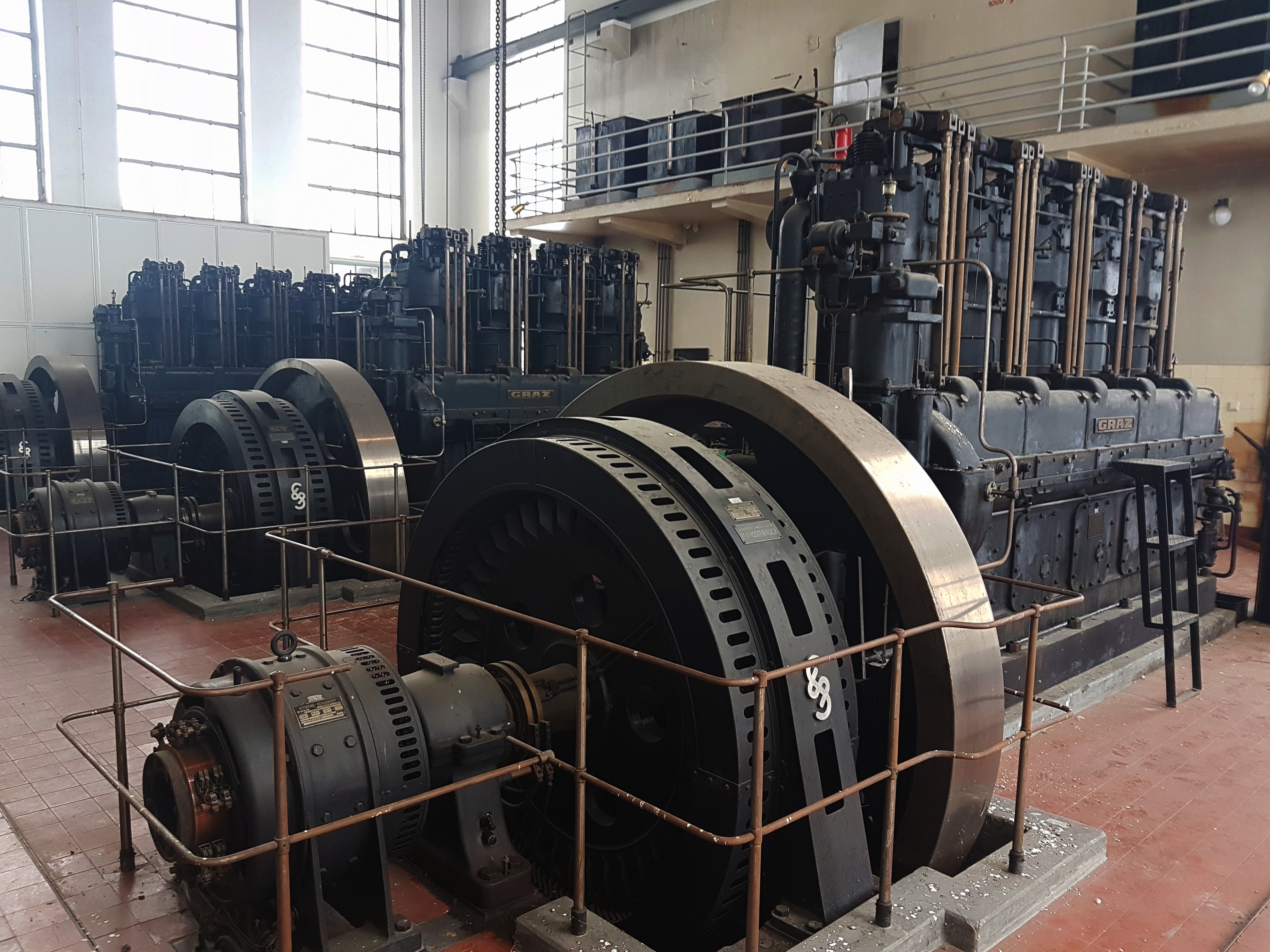 Power Generator Mediumwave Transmitter Bisamberg (Vienna, Austria)